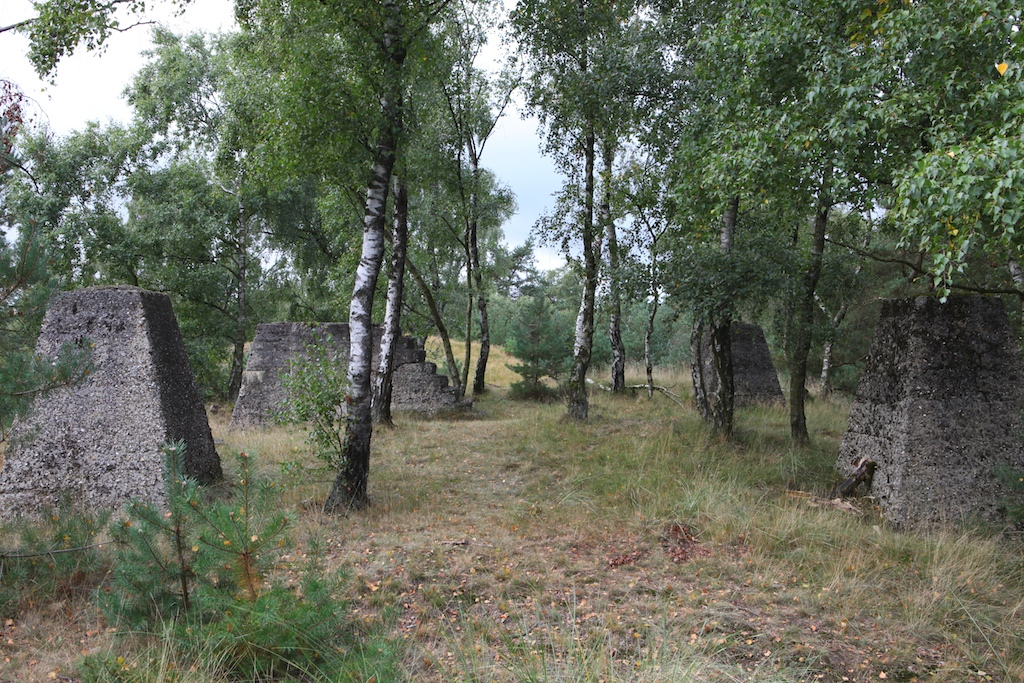 Foundations remaining of a tower of the Teerose II station in Rheden, The Netherlands.